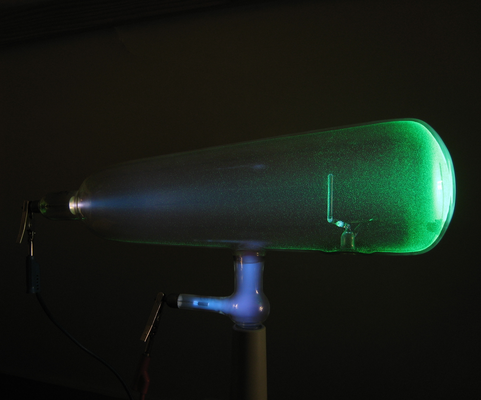 Lateral view of a sort of a Crookes tube described in the german Wikipedia (in use)